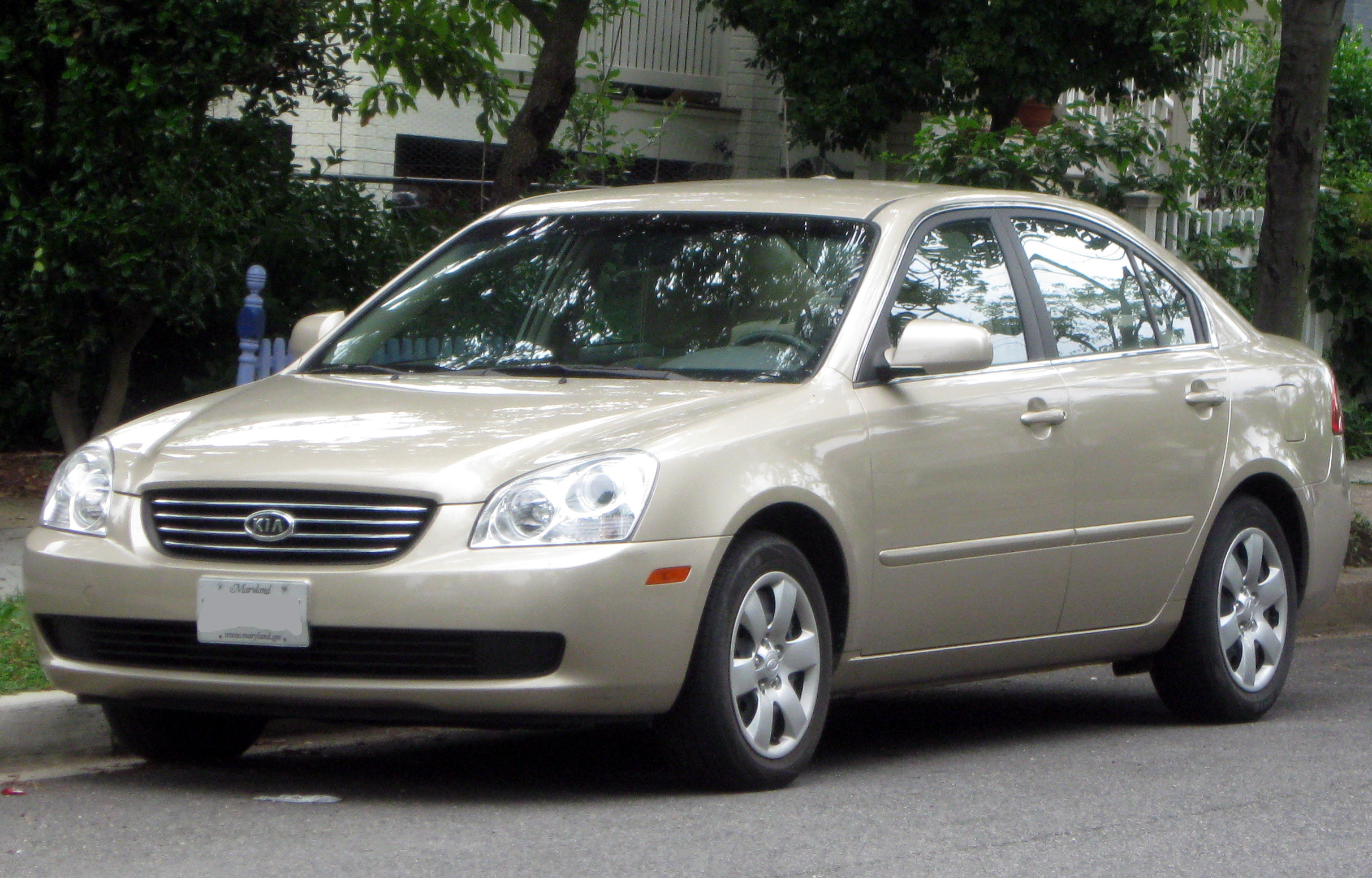 2006-2008 Kia Optima photographed in Washington, D.C., USA.